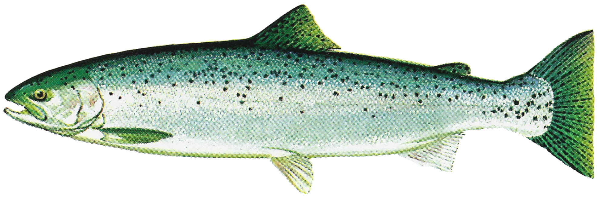 Drawing of ocean phase Steelhead (Oncorhynchus mykiss) from a pamphlet about the Lake Washington Ship Canal Fish Ladder at the Hiram M. Chittenden Locks, Seattle, Washington, scanned at 600 dpi and cleaned up.